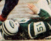 Buffalo Bills linebacker Ralph Baker pictured in a defensive play during a December 16, 1973 game against the Buffalo Bills at Shea Stadium.